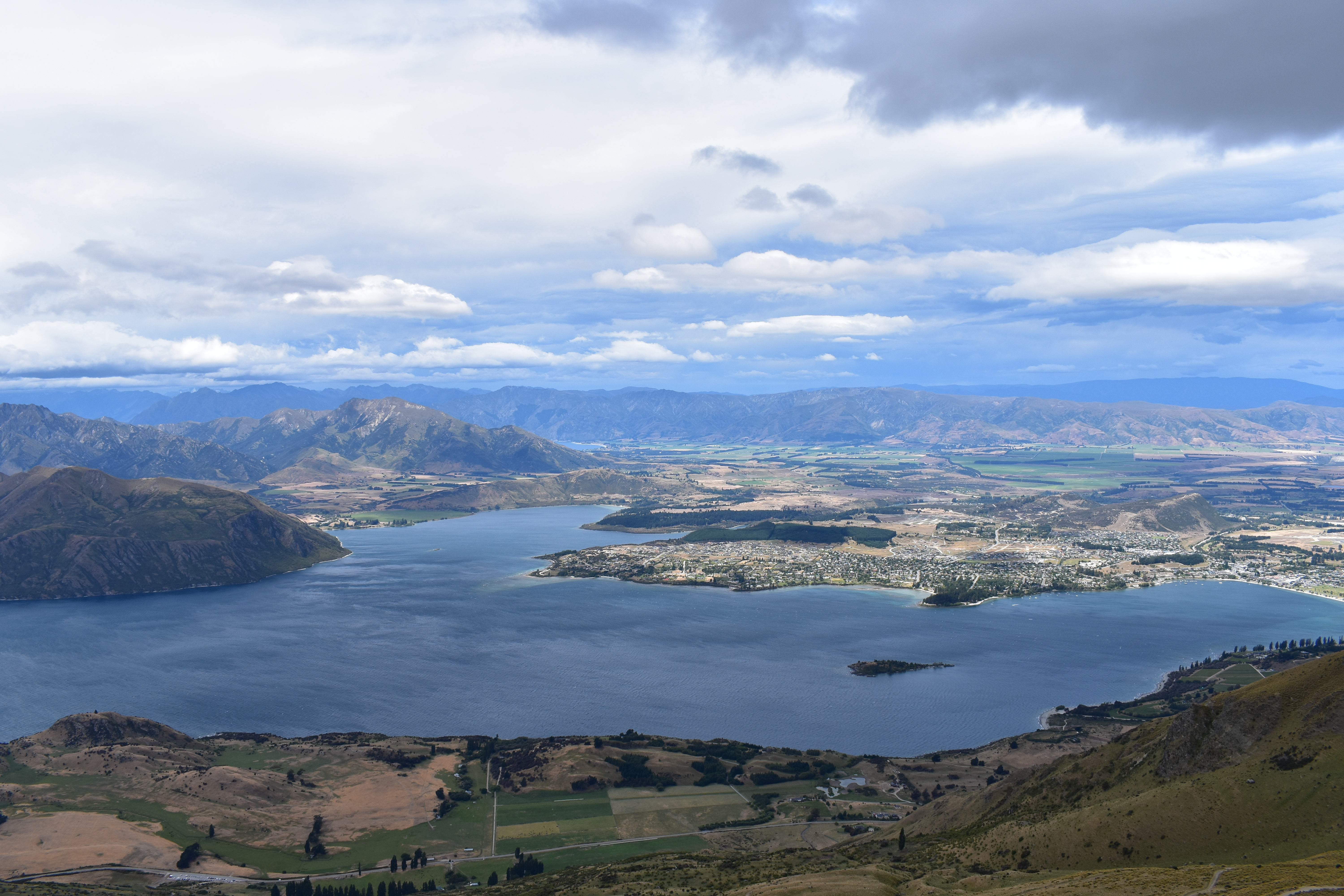 view from the Roy's peak walk